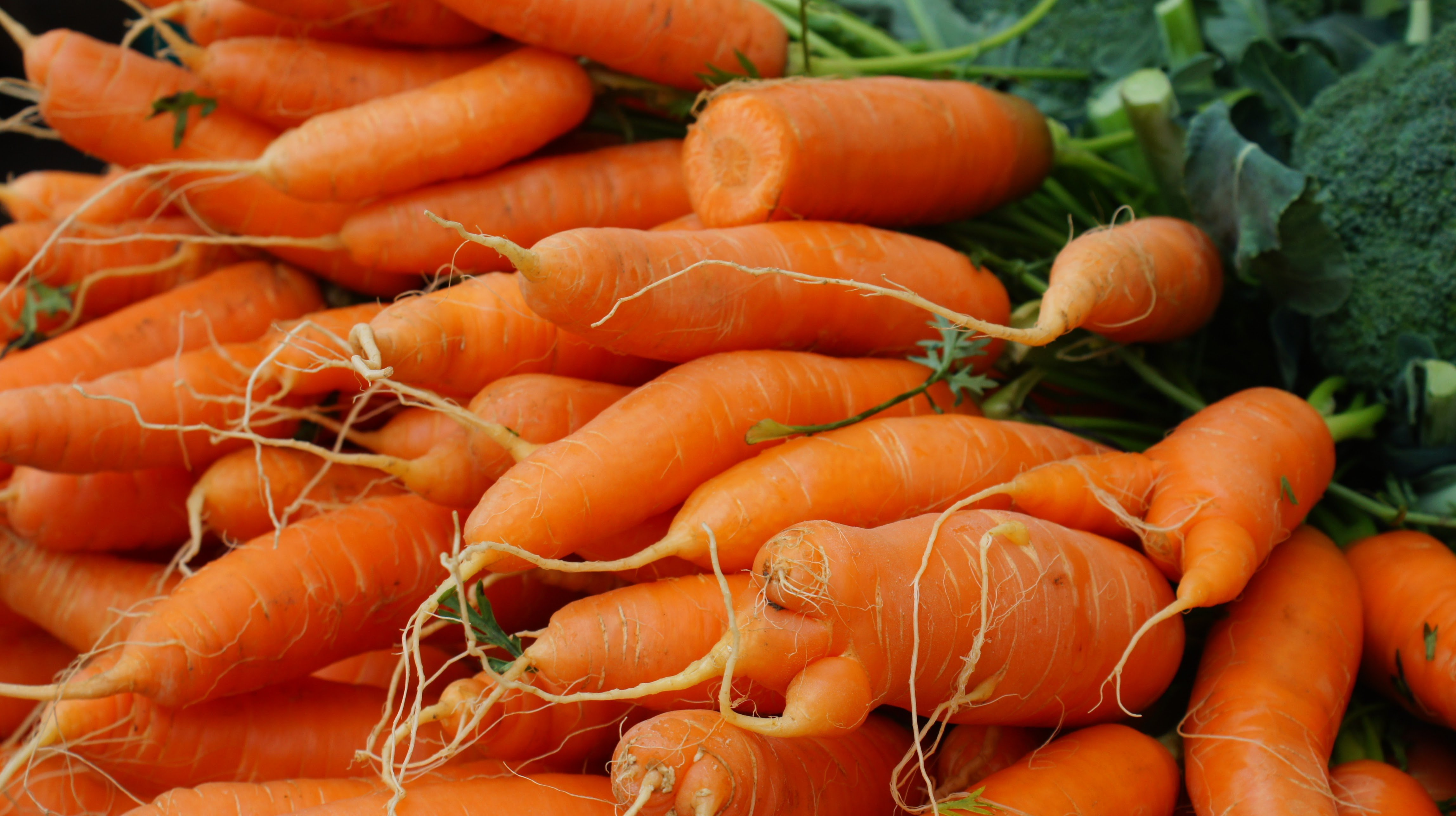 A close-up of bunches of carrots on display at Ljublana Central Market